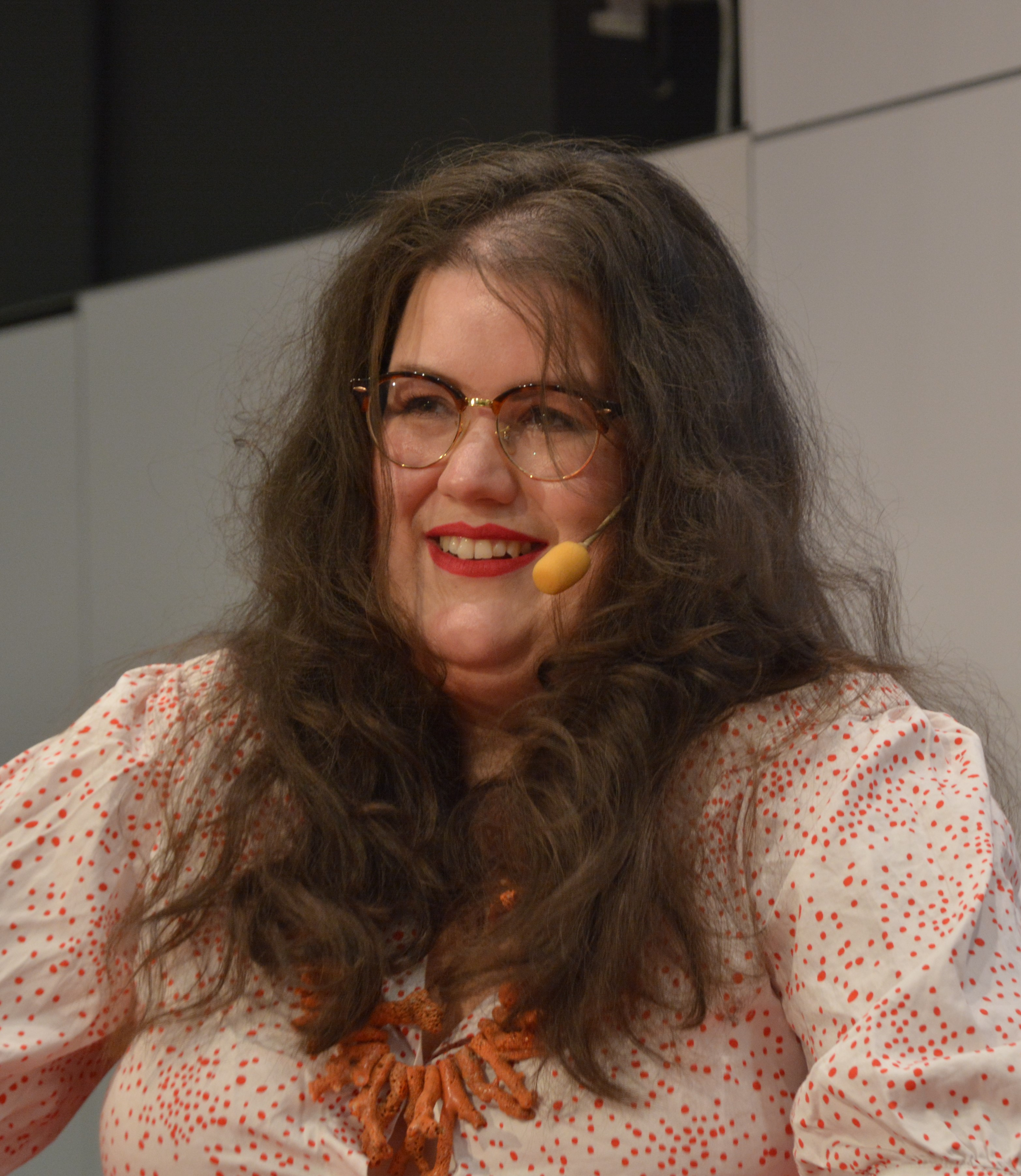 Maria Maunsbach